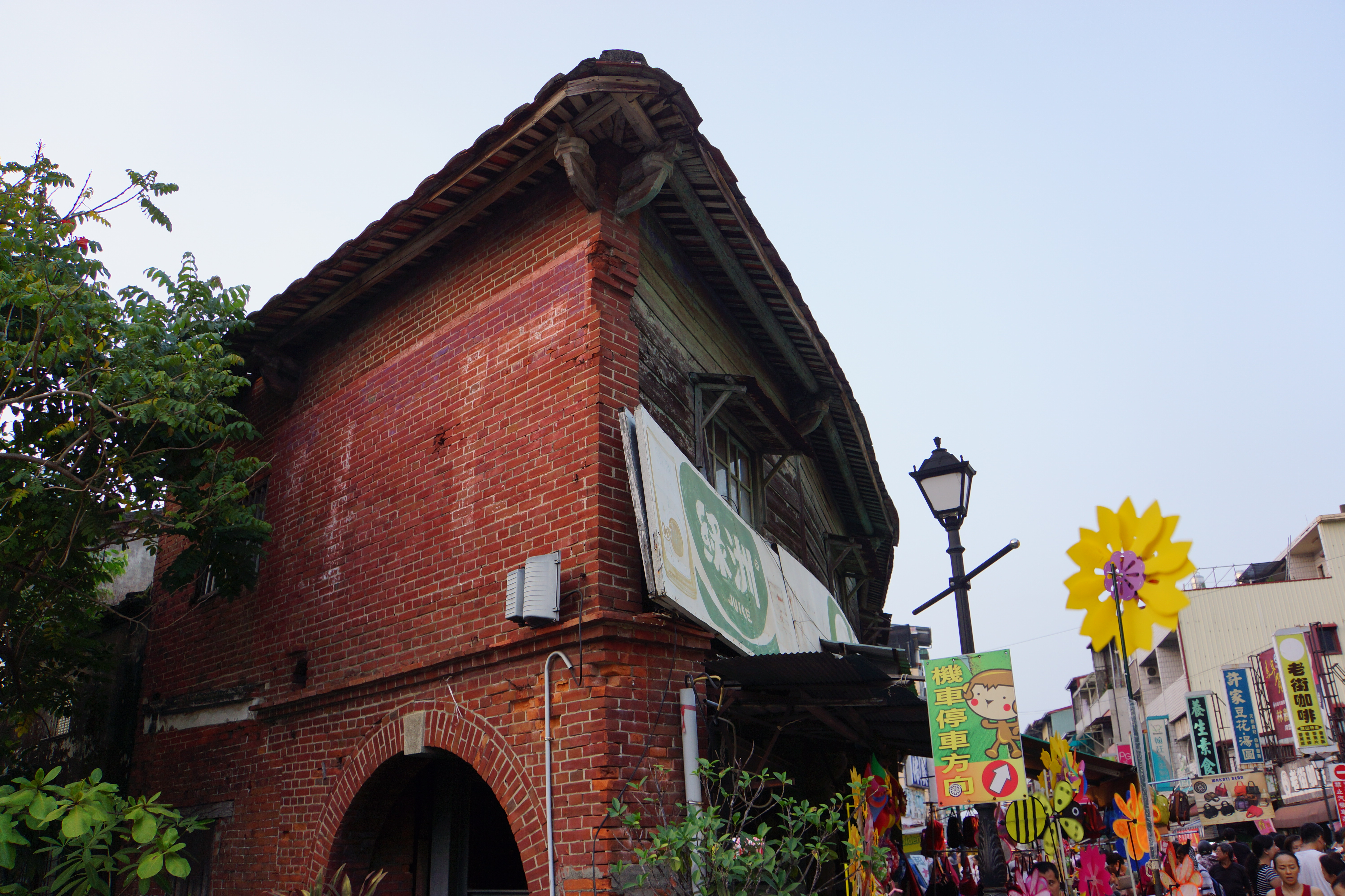 旗山老街 Qishan Old Street